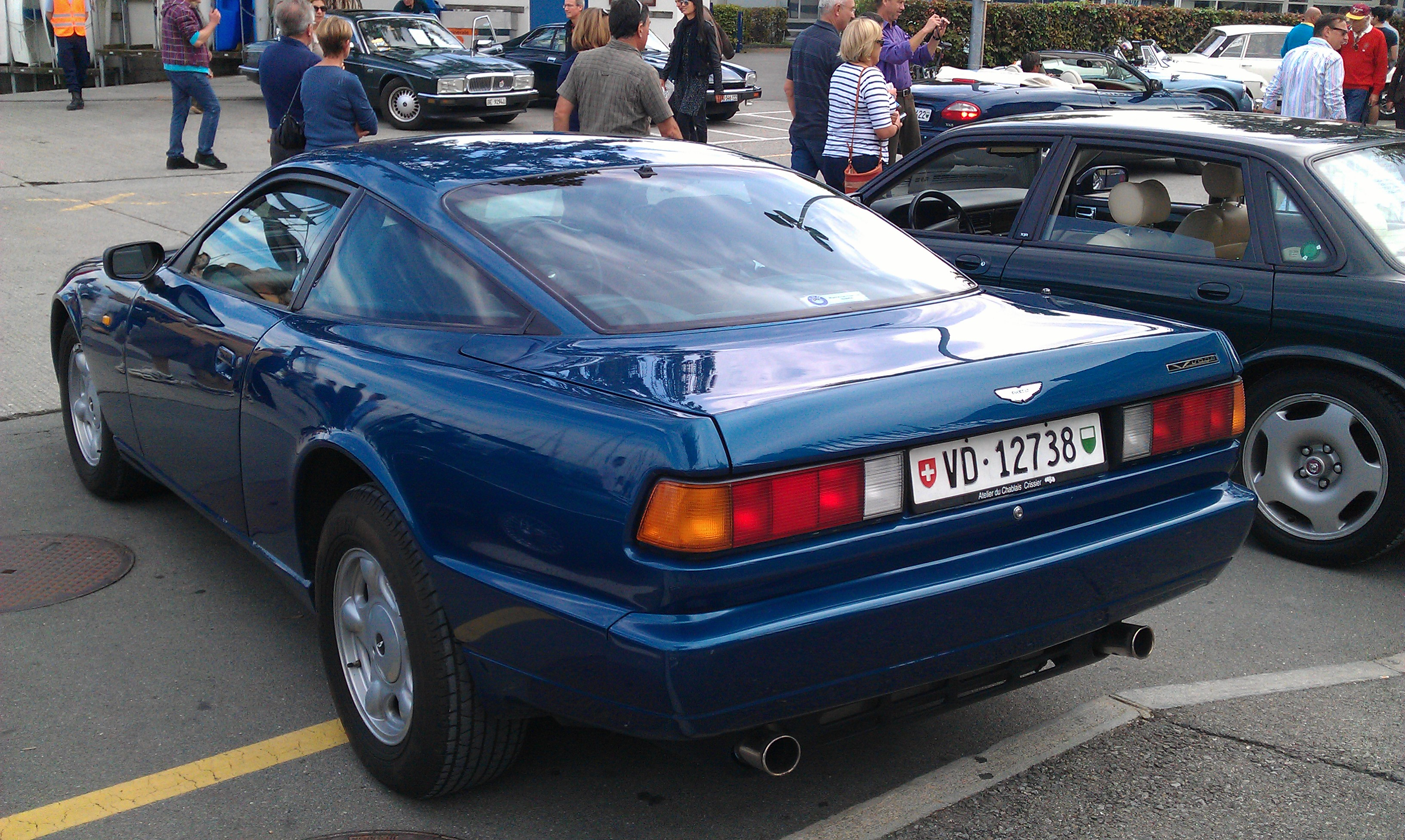 1997 Aston-Martin Virage